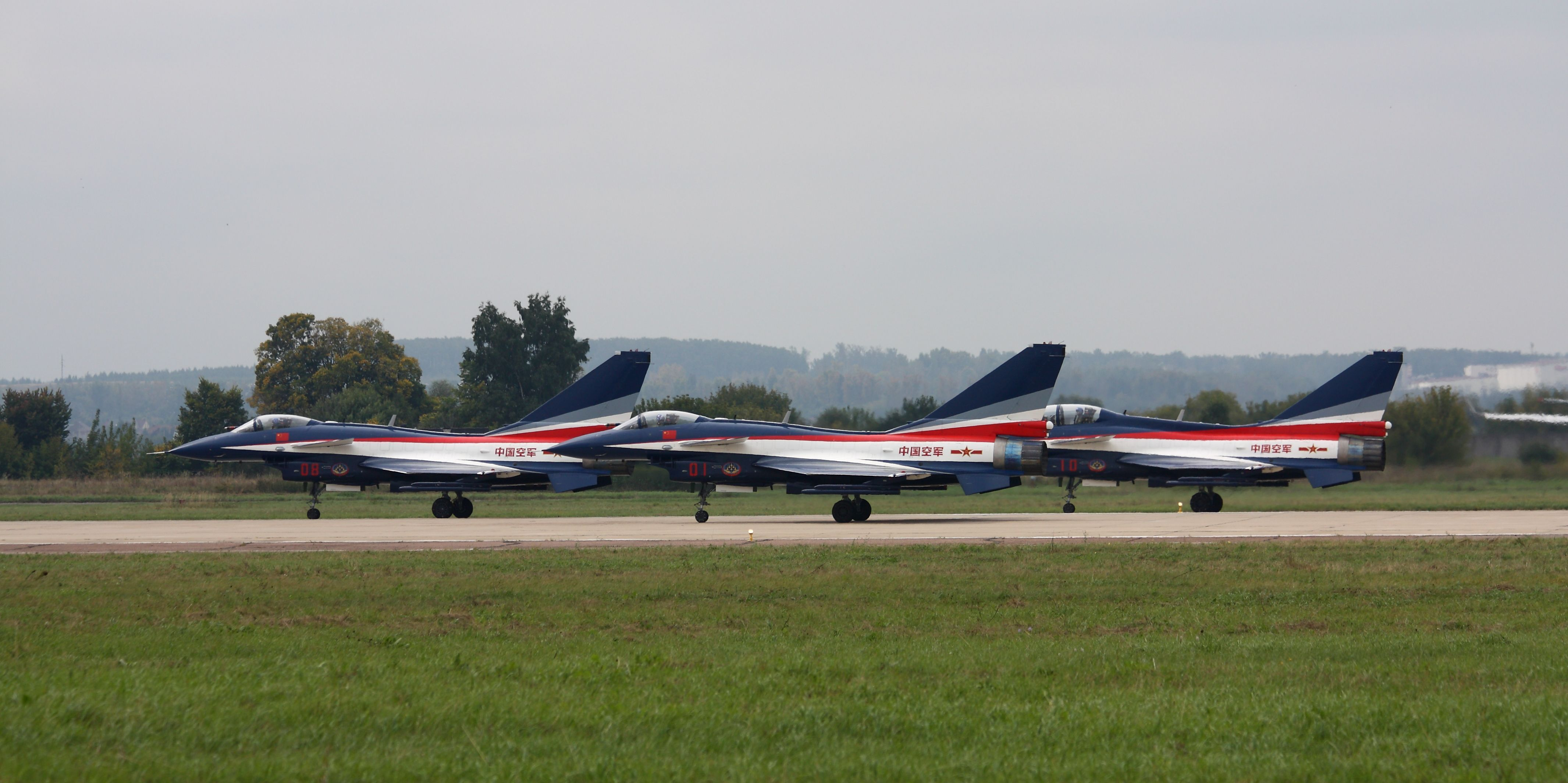 Chengdu J-10 (The international aerospace salon MAKS-2013)